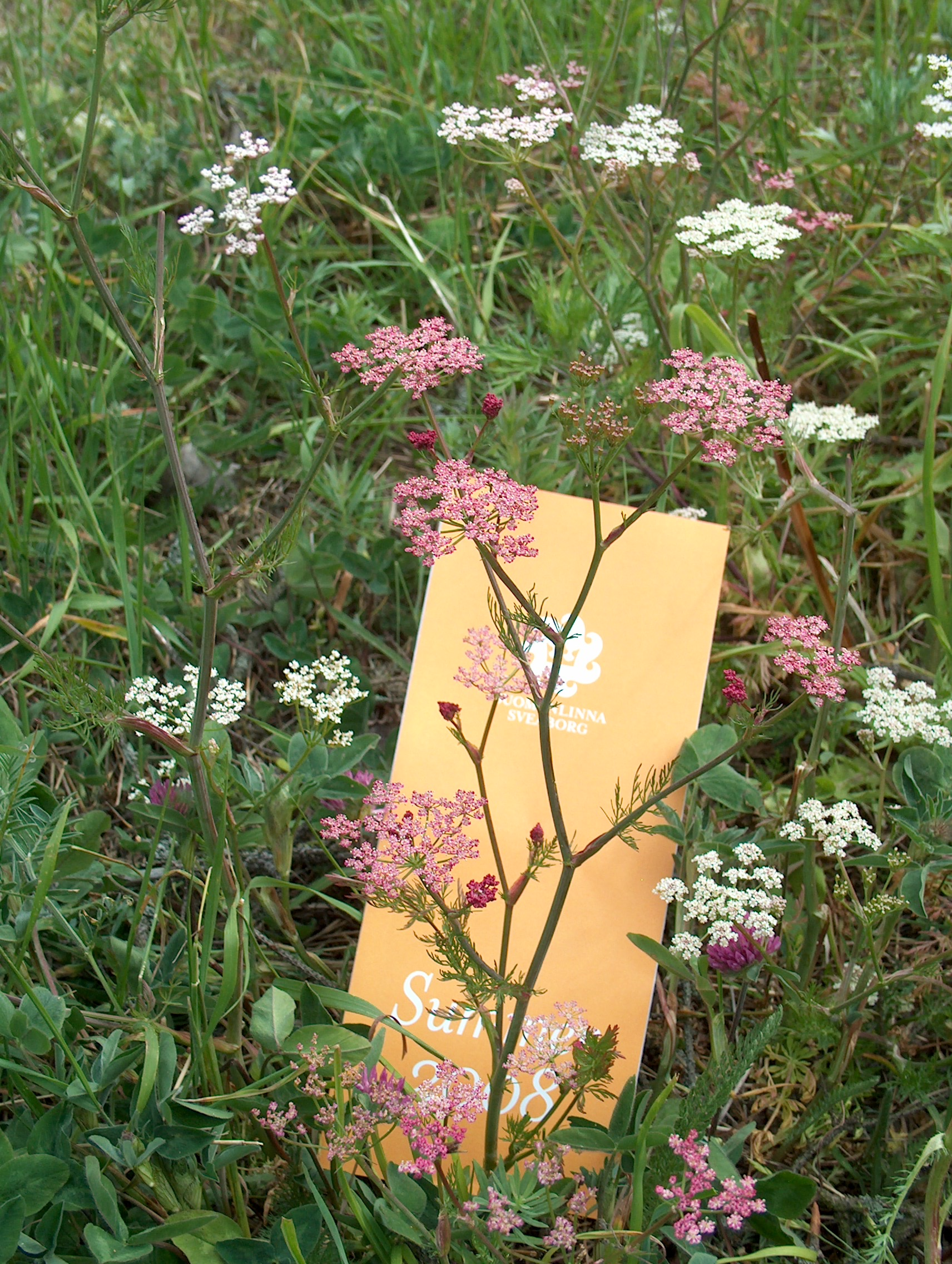 Carum carvi - Pink Caraway flowering in Suomenlinna fortress in Finland.